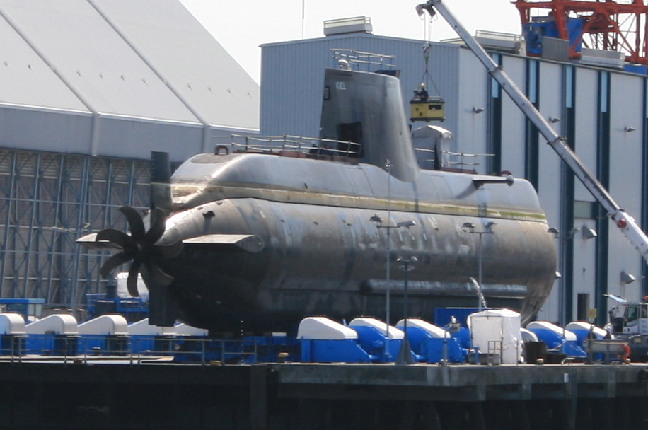 Greek submarine S-120 Papanikolis (214 type) at HDW at Kiel